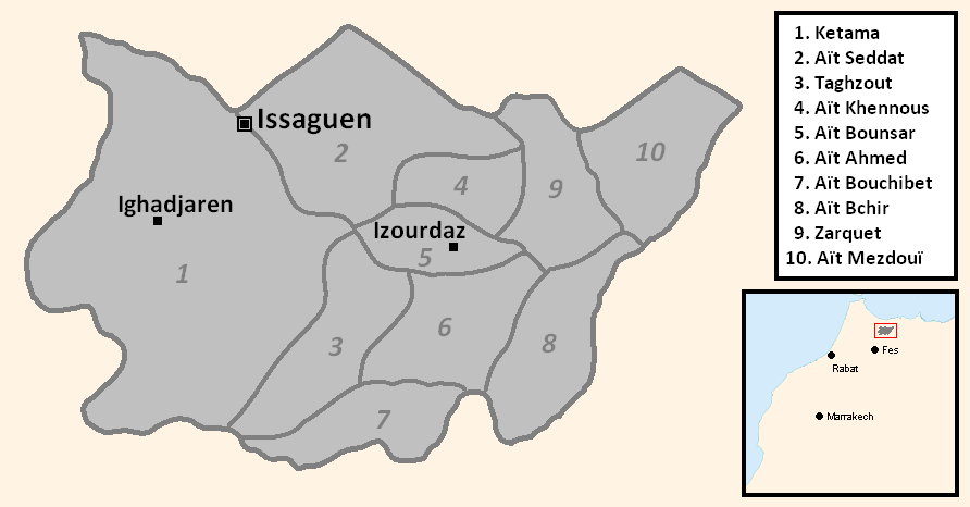 Map of the Sanhaja de Srayr tribes and their respective territories